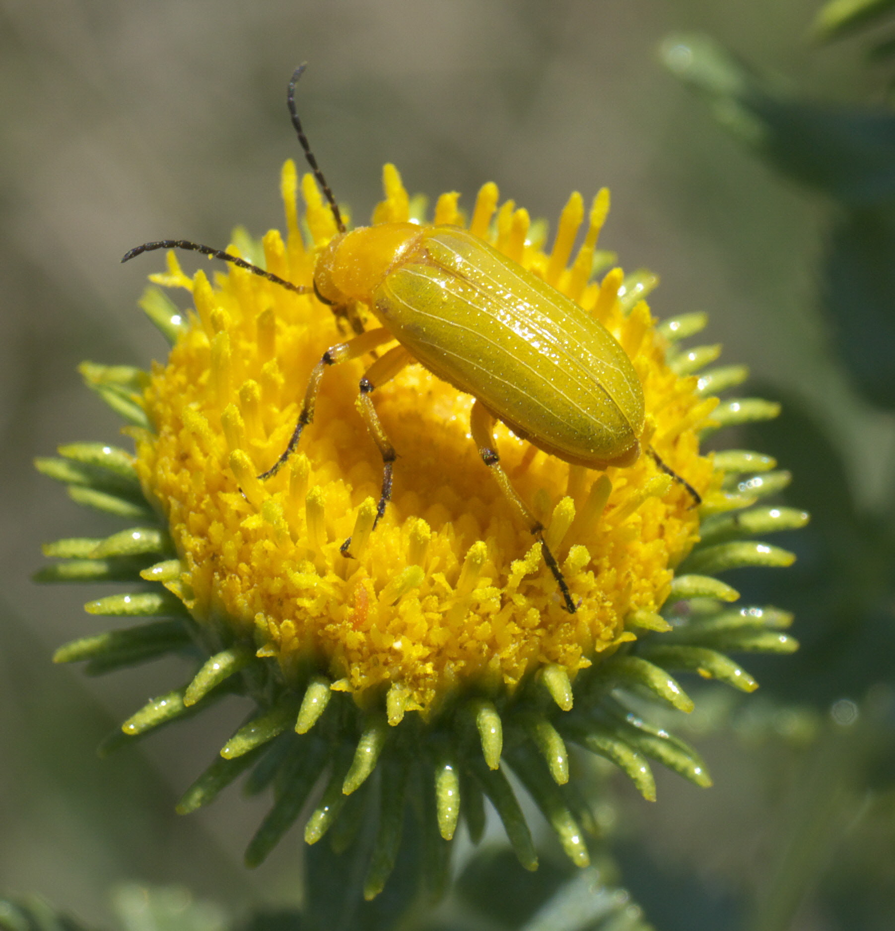 Zonitis sayi, Family: Blister Beetles, ID Confidence: 87